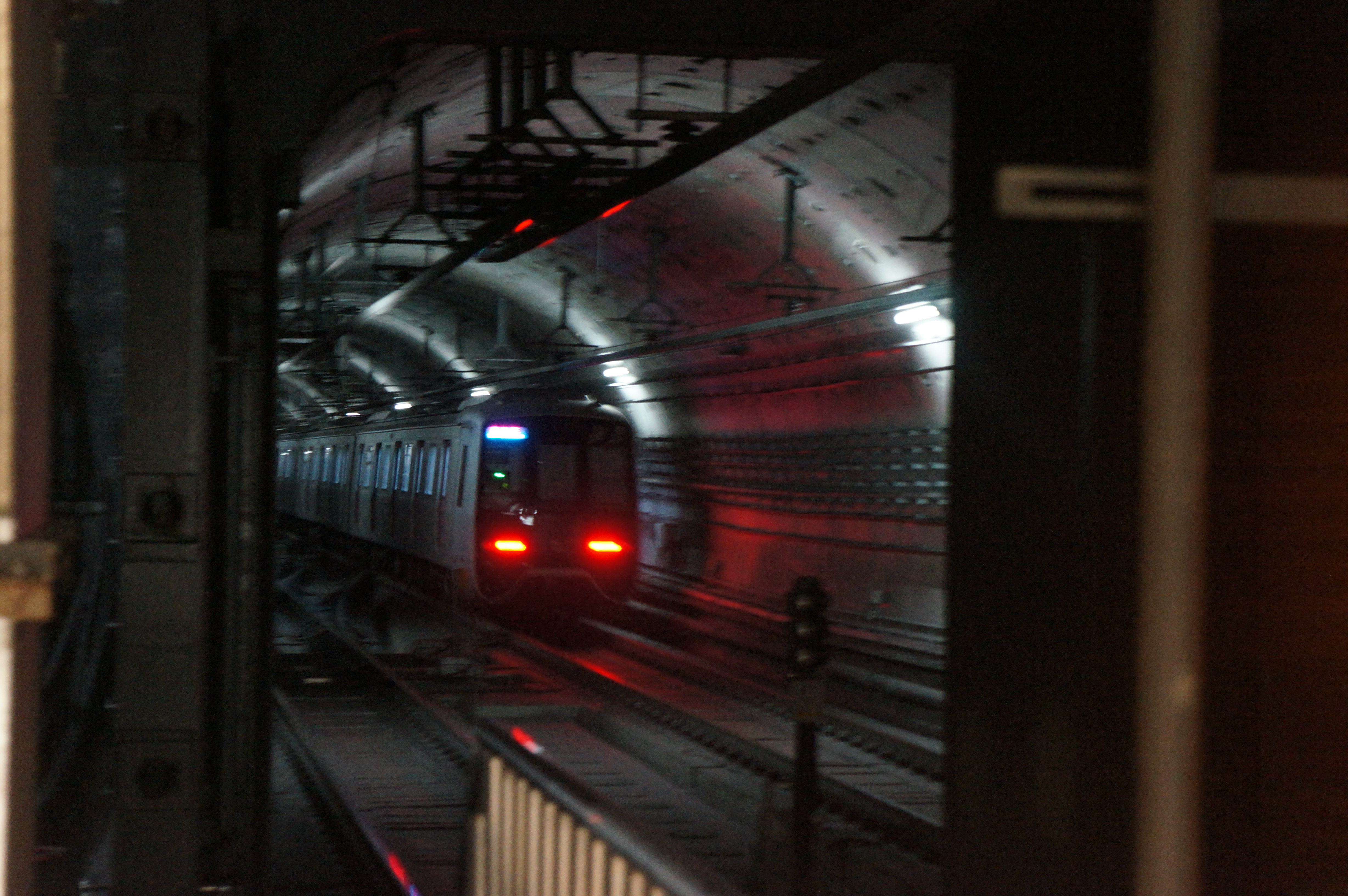 201606 A L14 rolling stock approaches to Jiangtai Station